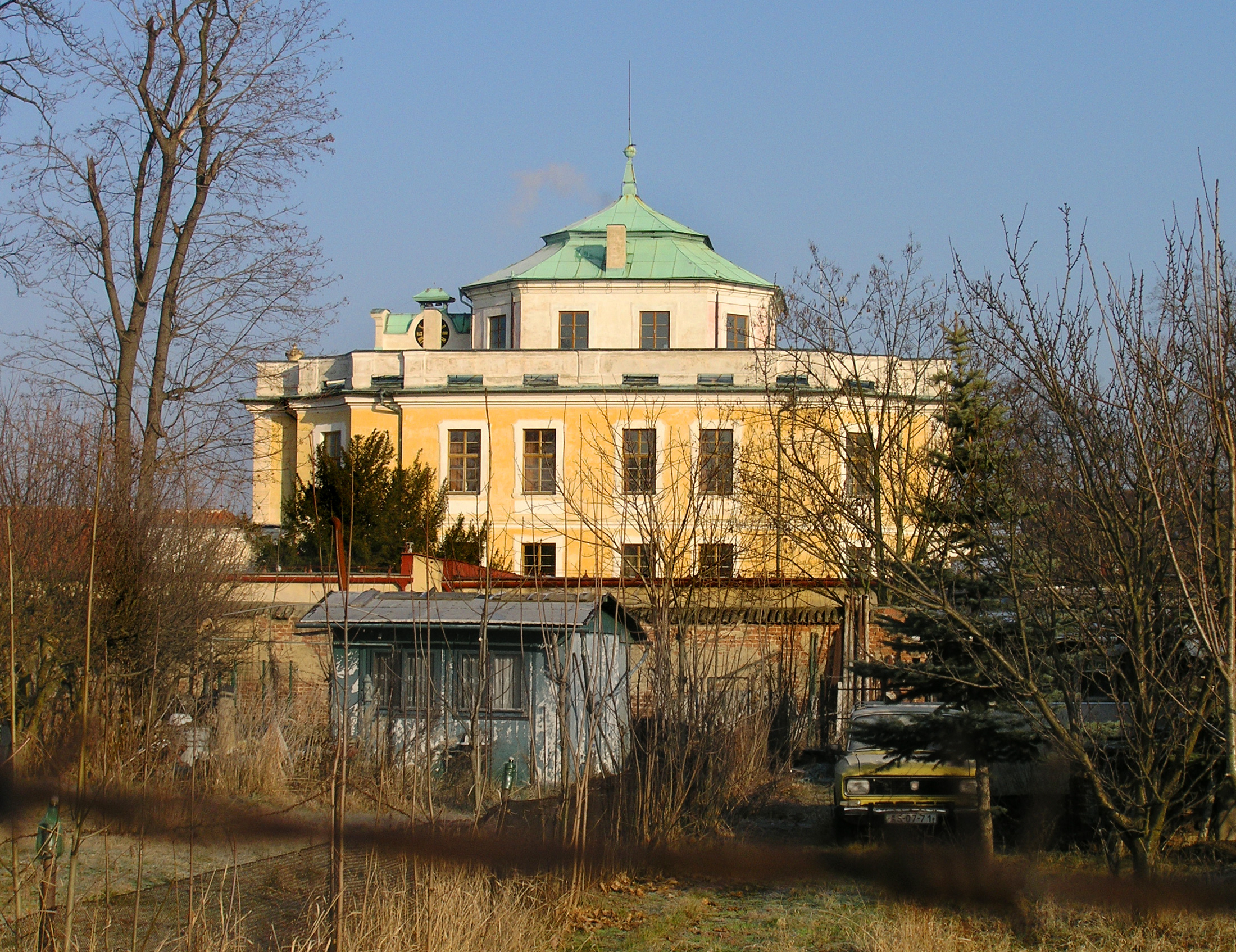 Vinoř castle in Vinoř, Prague